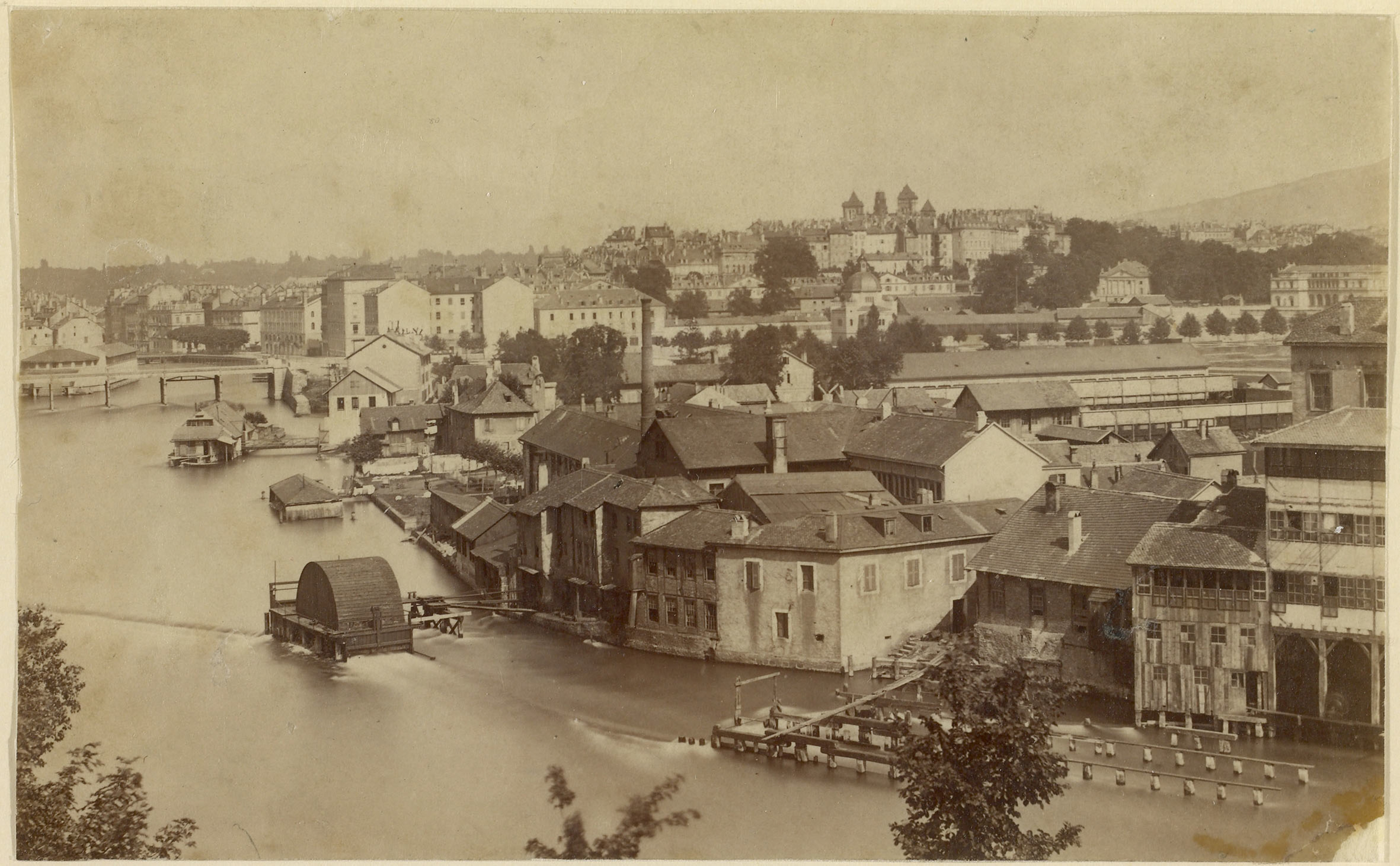 Rhône river in Geneva, Prélaz Mills, Public Baths and Laundries